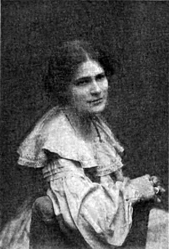 Edith Rickert (1871–1938) was an influential medieval scholar at the University of Chicago